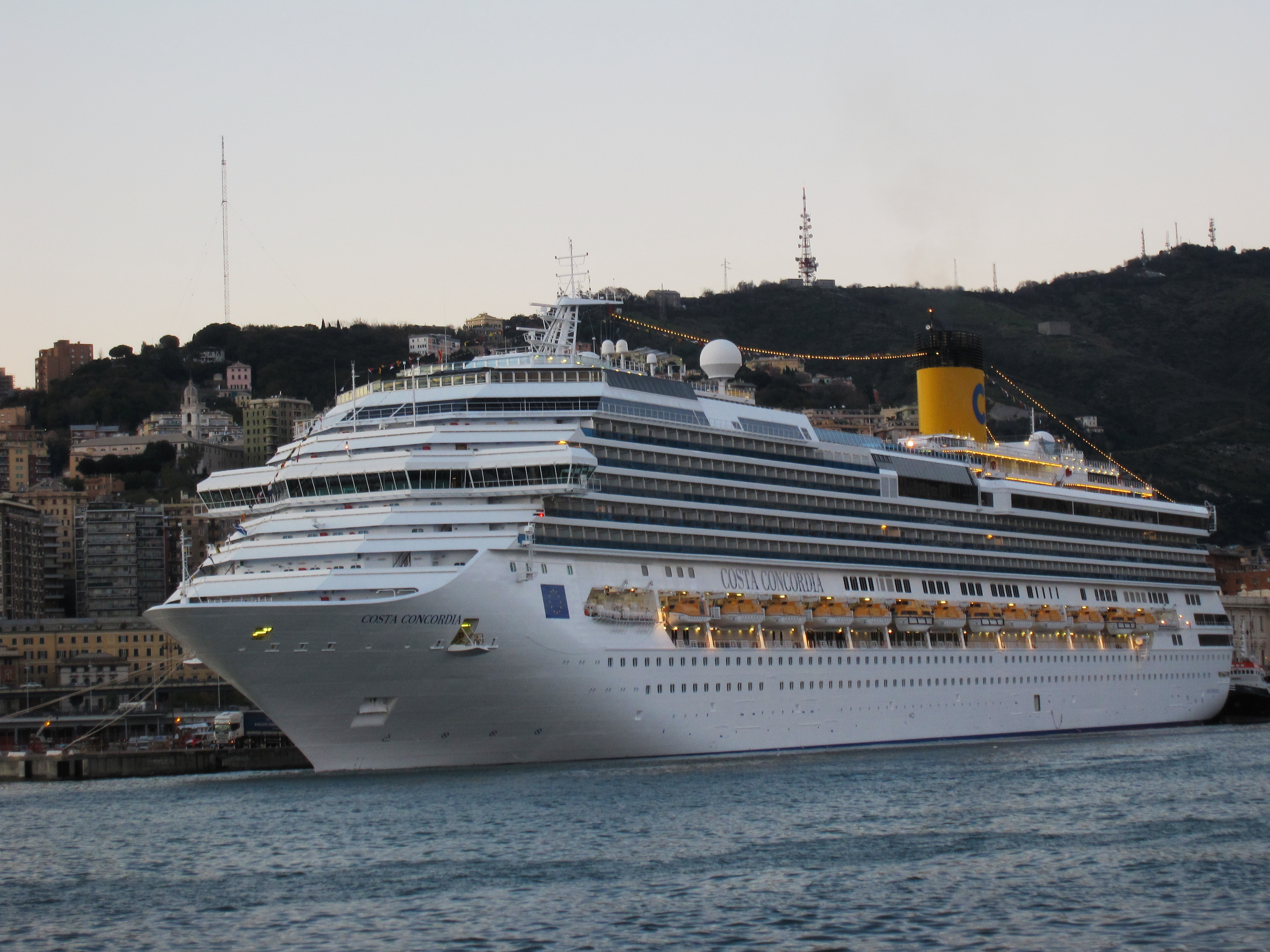 Costa Concordia in Genoa Harbour Information about Costa Concordia may be found at IMO 9320544. A ship can change name and flag state through time, but the IMO number remains the same through the hull's entire lifetime. As a result, it can be useful to identify a ship by using the IMO number.